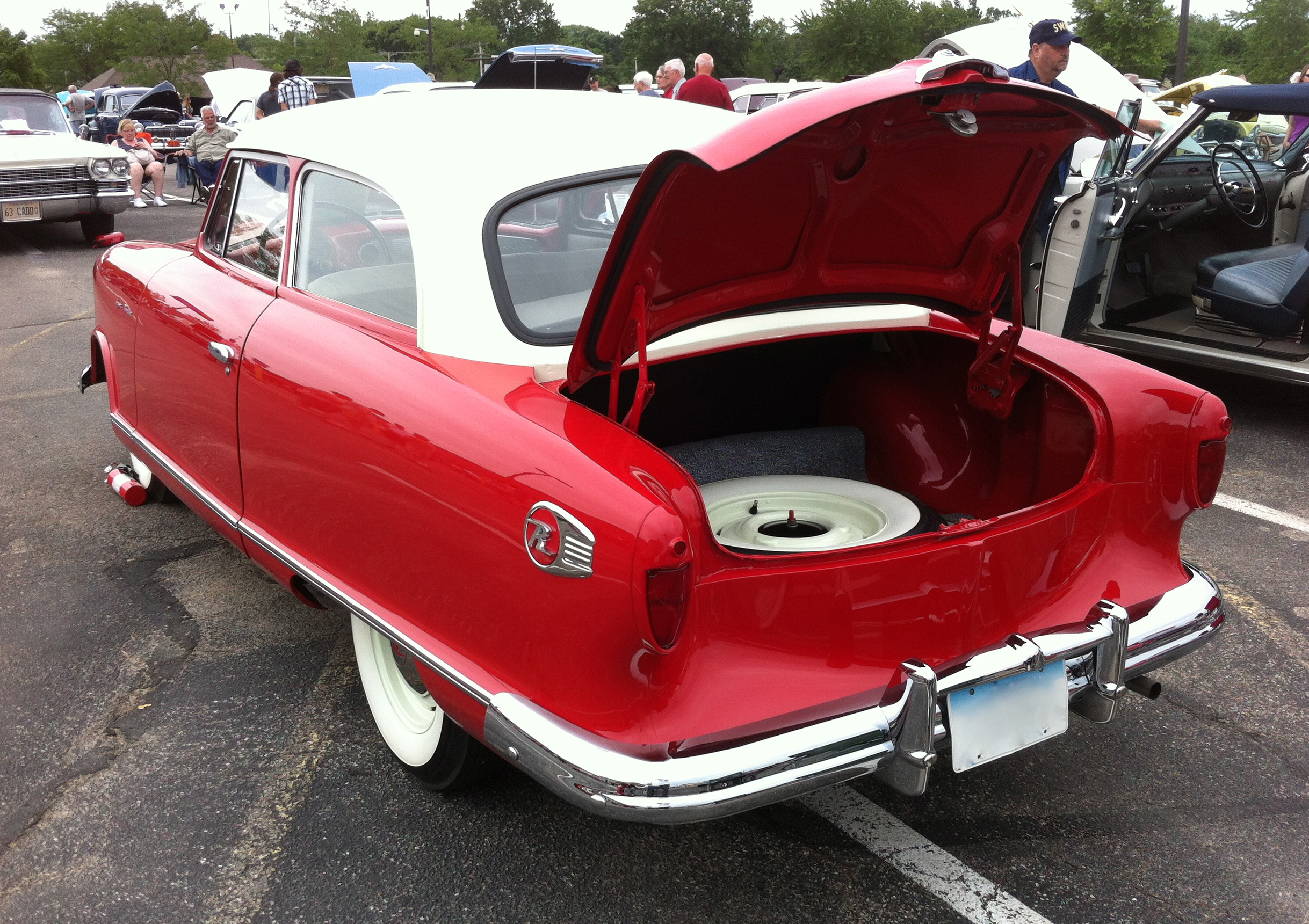 1955 Hudson Rambler 2-door sedan, a compact-sized car made by American Motors Corporation (AMC). An identical car was also marketed through Nash dealers (as the Nash Rambler). Picture taken at the 2012 Antique Automobile Club of America (AACA) Central Spring meet in Cedar Rapids, Iowa.